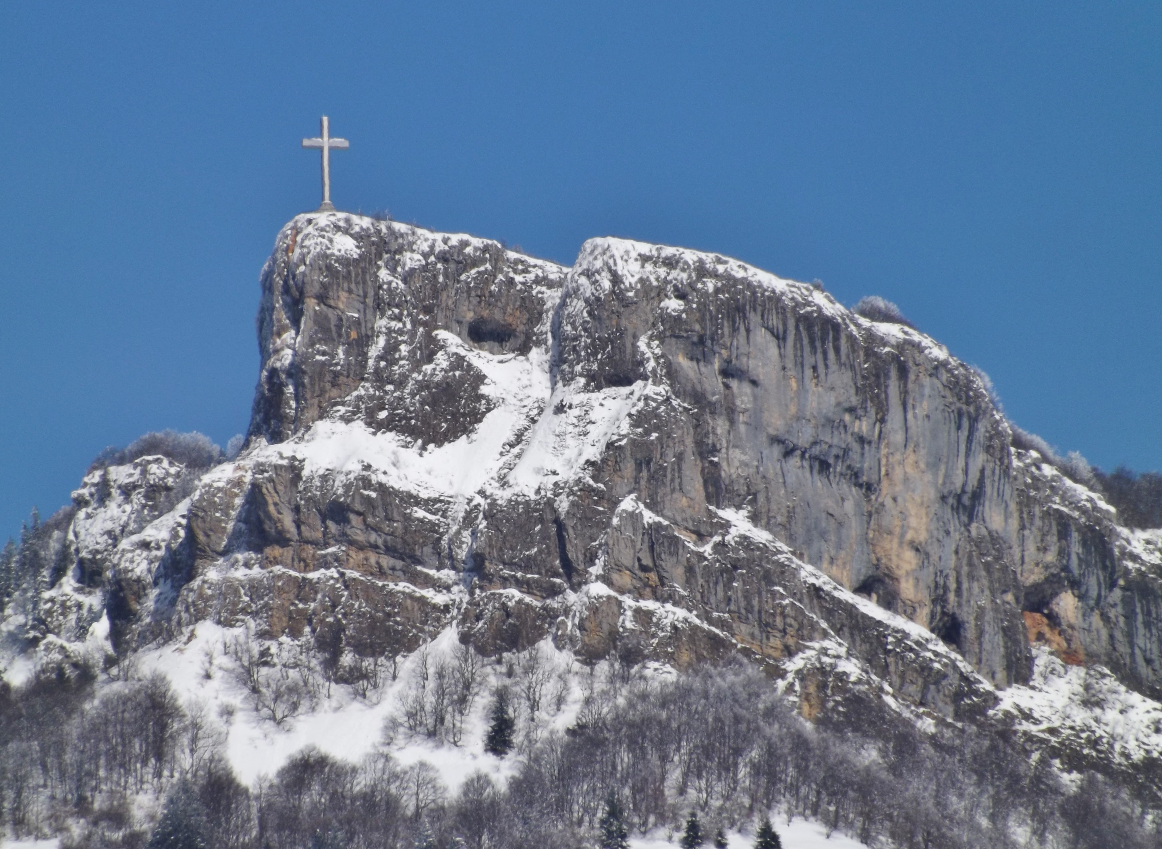 Sight from Chambéry (Savoie, France) of le Nivolet mountain, and the croix du Nivolet cross (1 547 meters high), snow-covered.